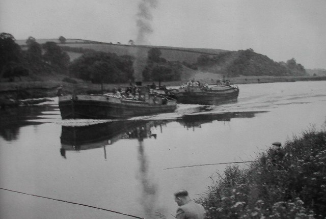 The Trent at Hoveringham. over half a century ago barges still went up and down the River Trent. This old photo captures one in August 1954